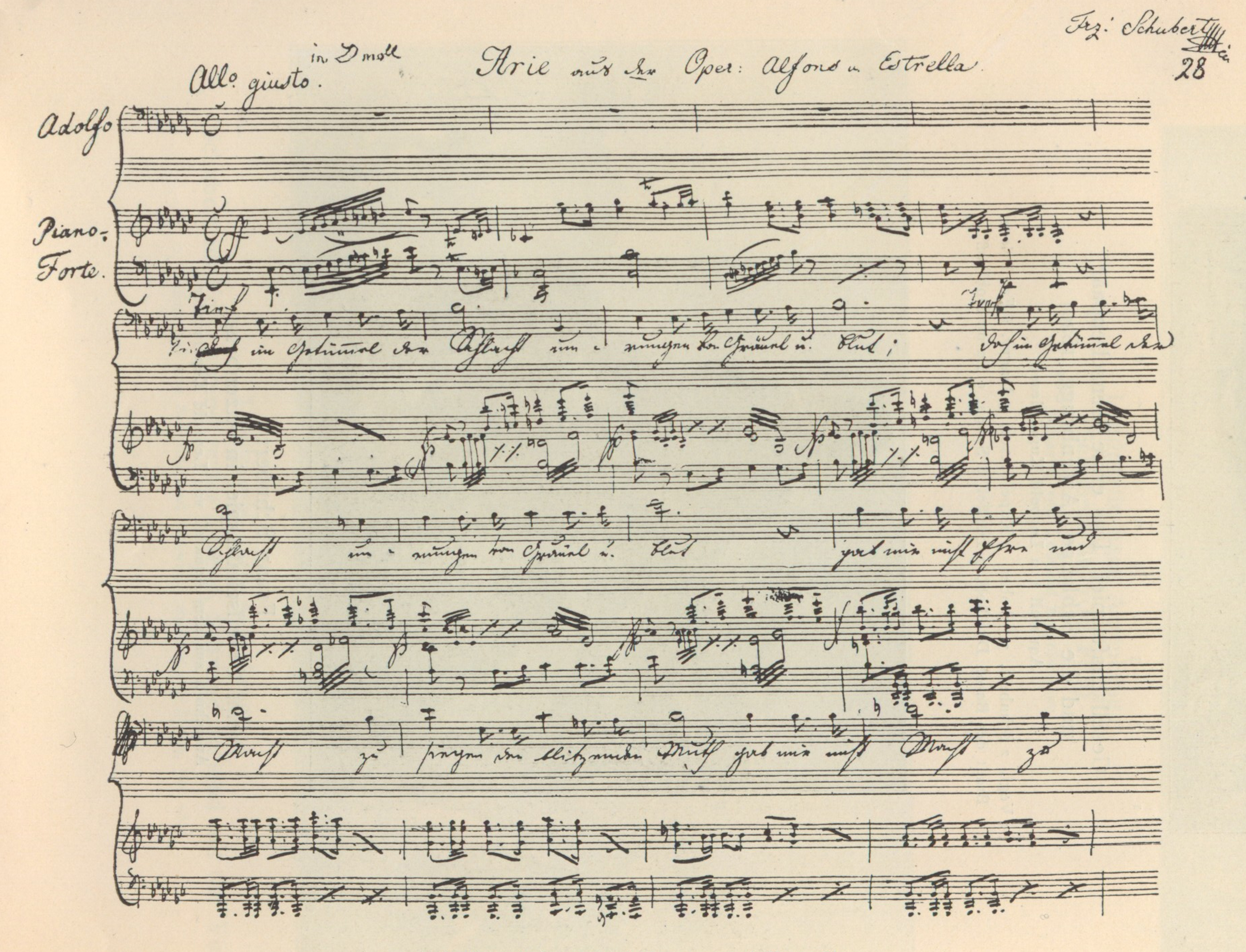 A&E autograph vocal score Facsimile W. Dahms, 1913